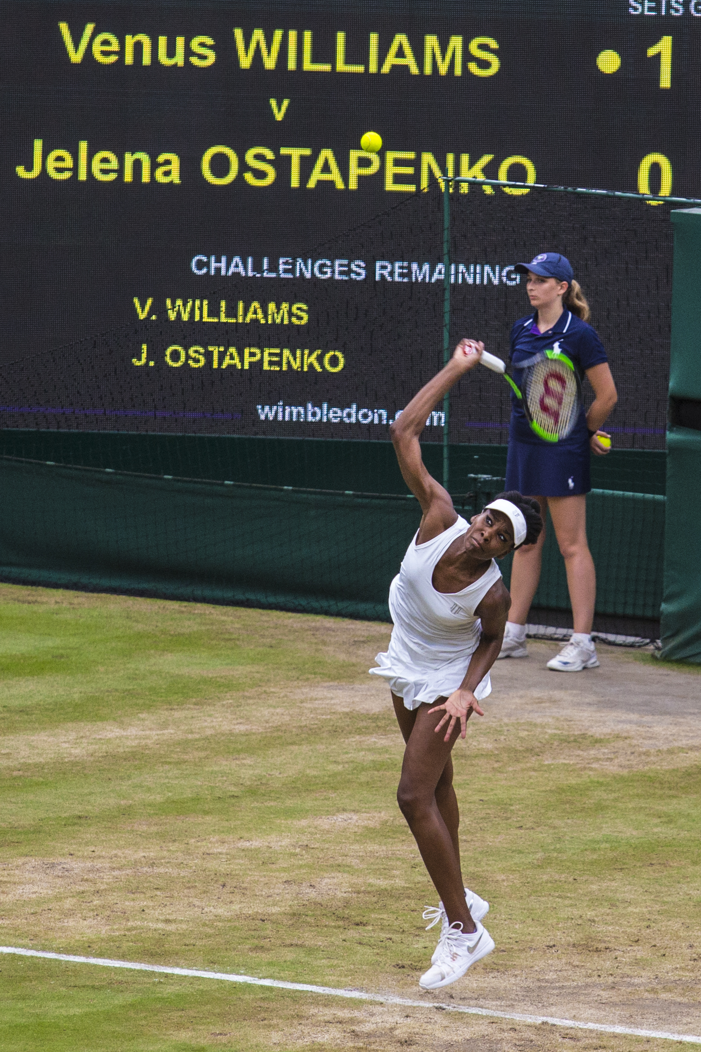 Wimbledon 2017 Photo: Siu Leng Chan Ng